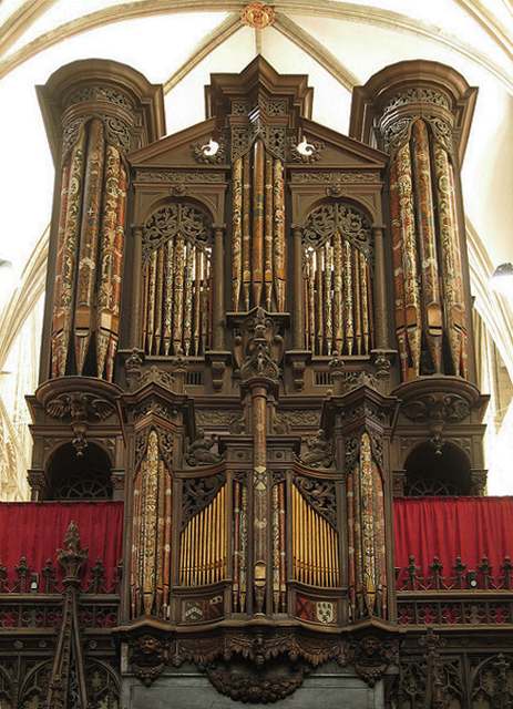 The organ of Gloucester Cathedral, rebuilt by Henry Willis (1847)